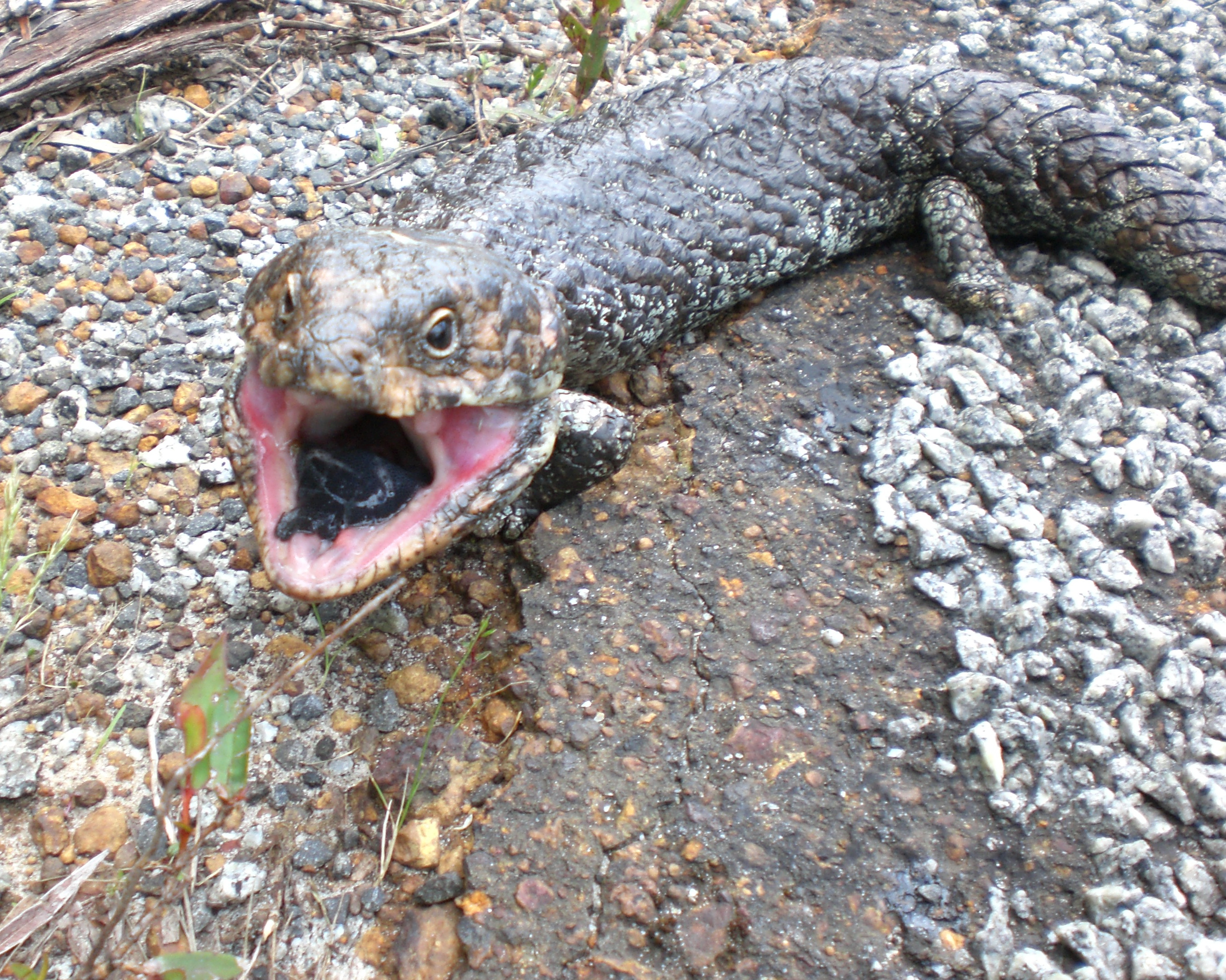 The species Tiliqua rugosa, photographed at Big Grove, Albany, displaying a threat response. The photographer, who is usually happy to let other organisms go about their business, deliberately prompted this display.